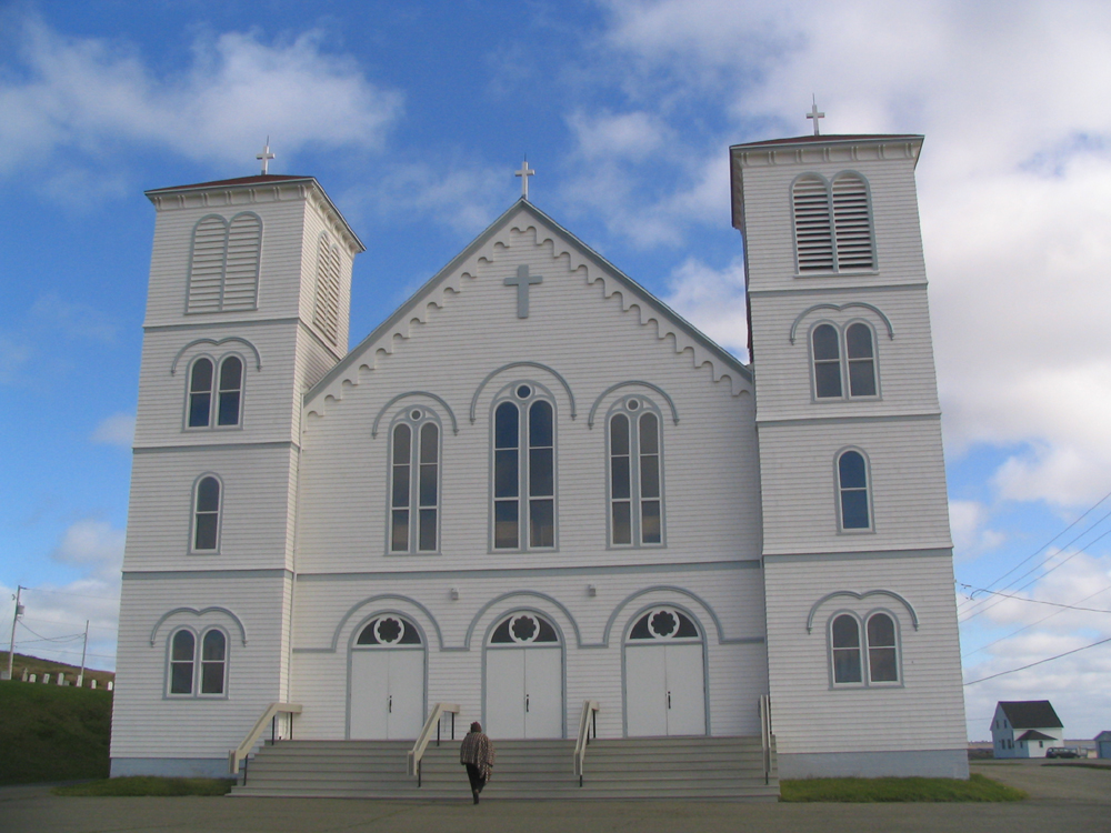 Saint-François-Xavier Church in Bassin, Magdalen Islands, Canada